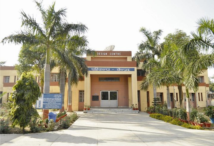 Design Centre of the Motilal Nehru National Institute of Technology Allahabad